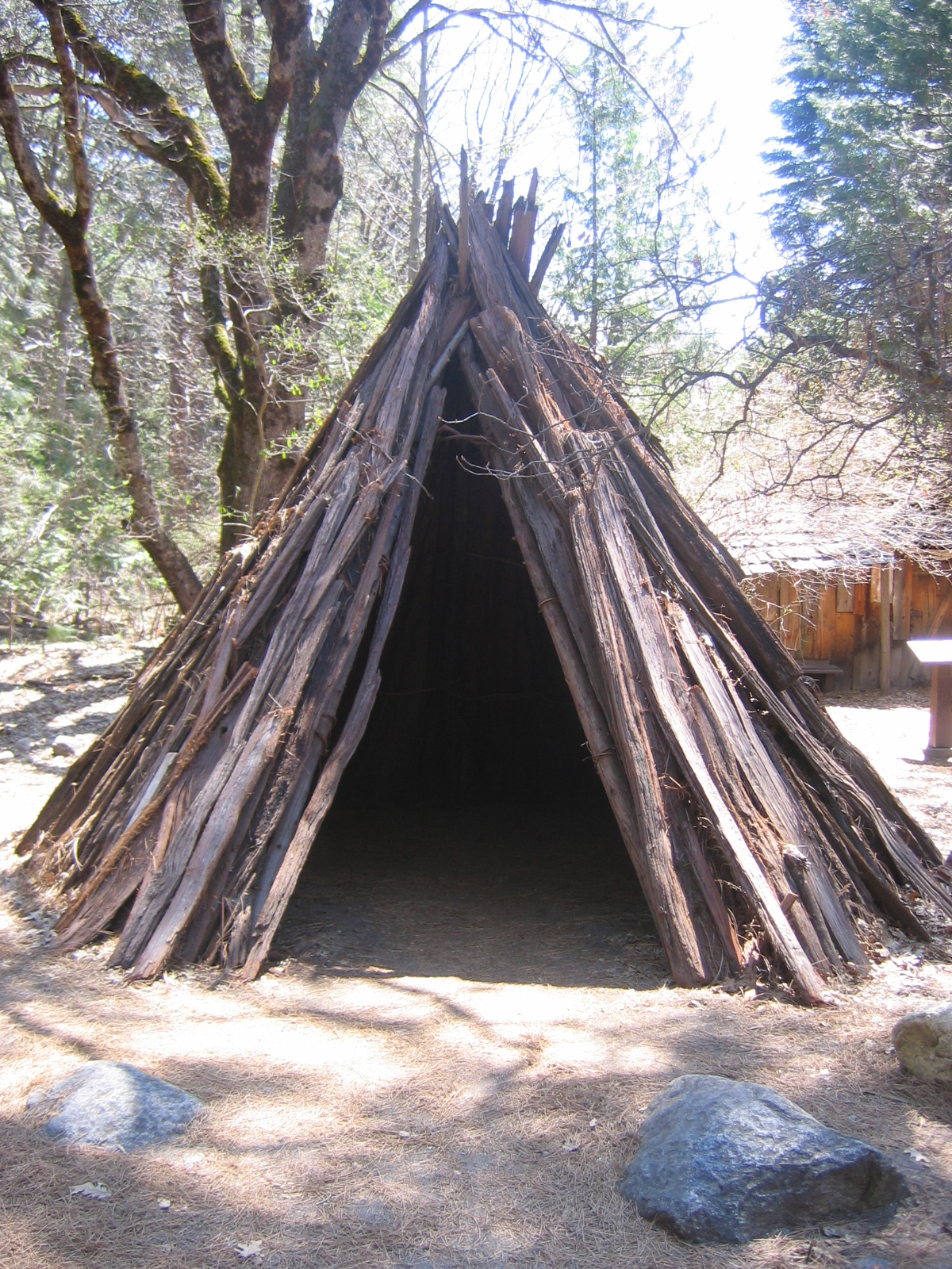 Miwok House, Yosemite National Park, California, USA.